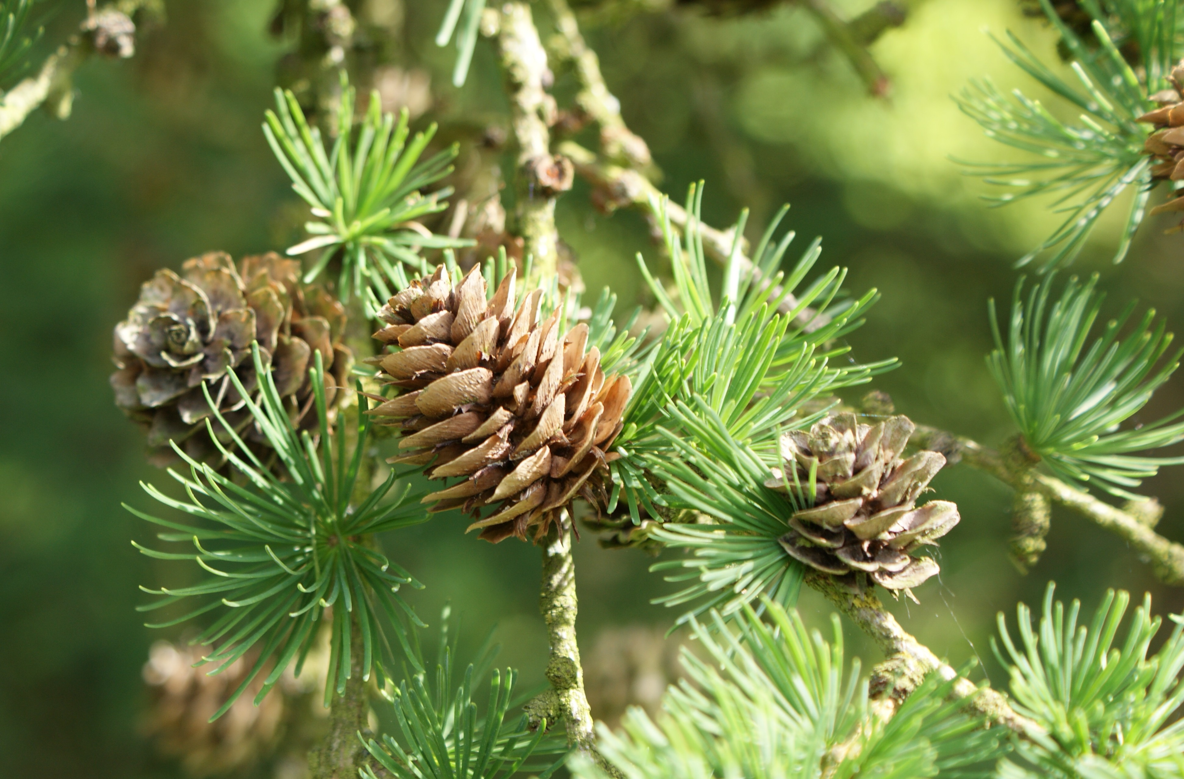 Larix principis-rupprechtii (syn. L. gmelinii var. principis-rupprechtii). Glinna Arboretum near Szczecin (NW Poland)